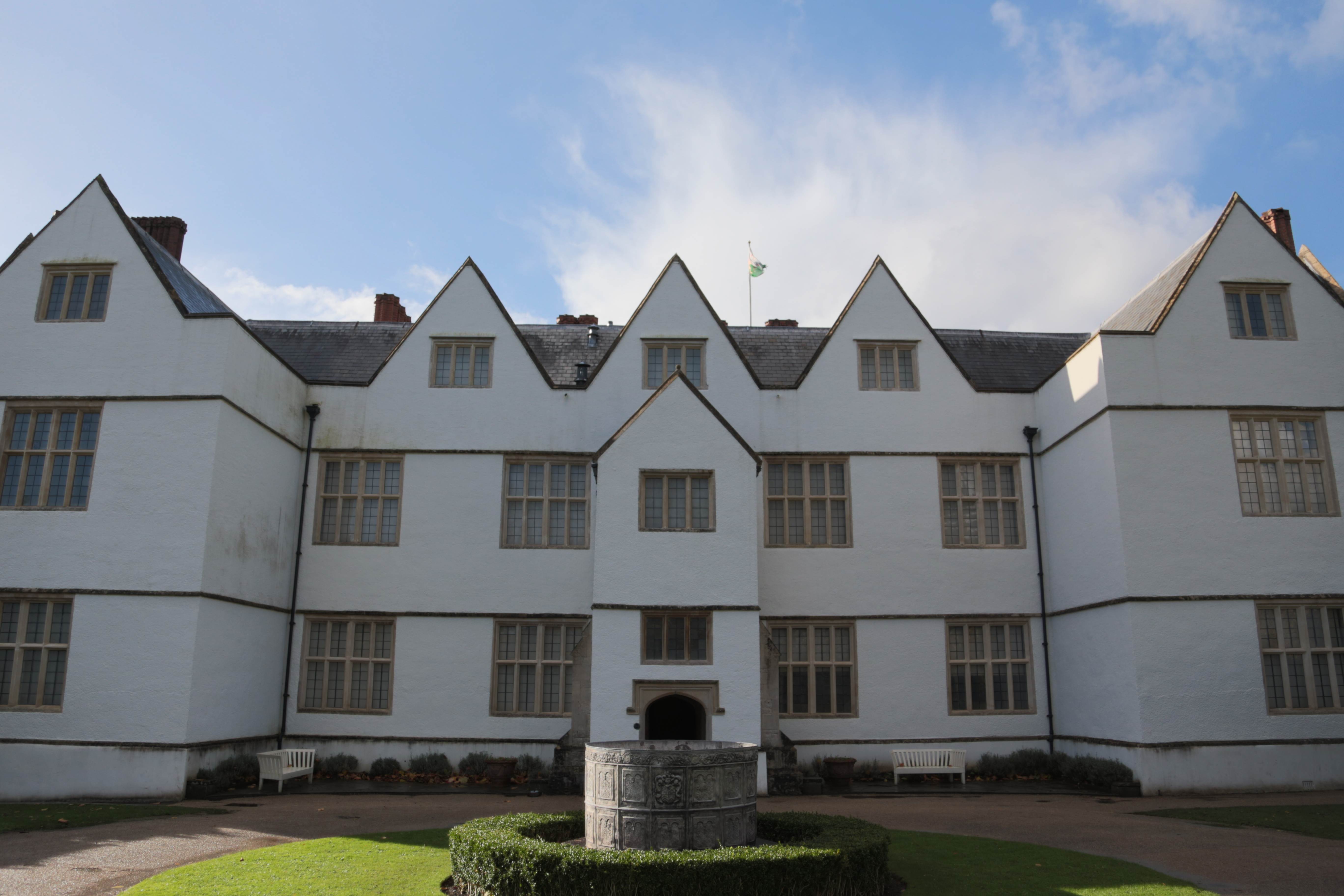 St Fagans National History Museum